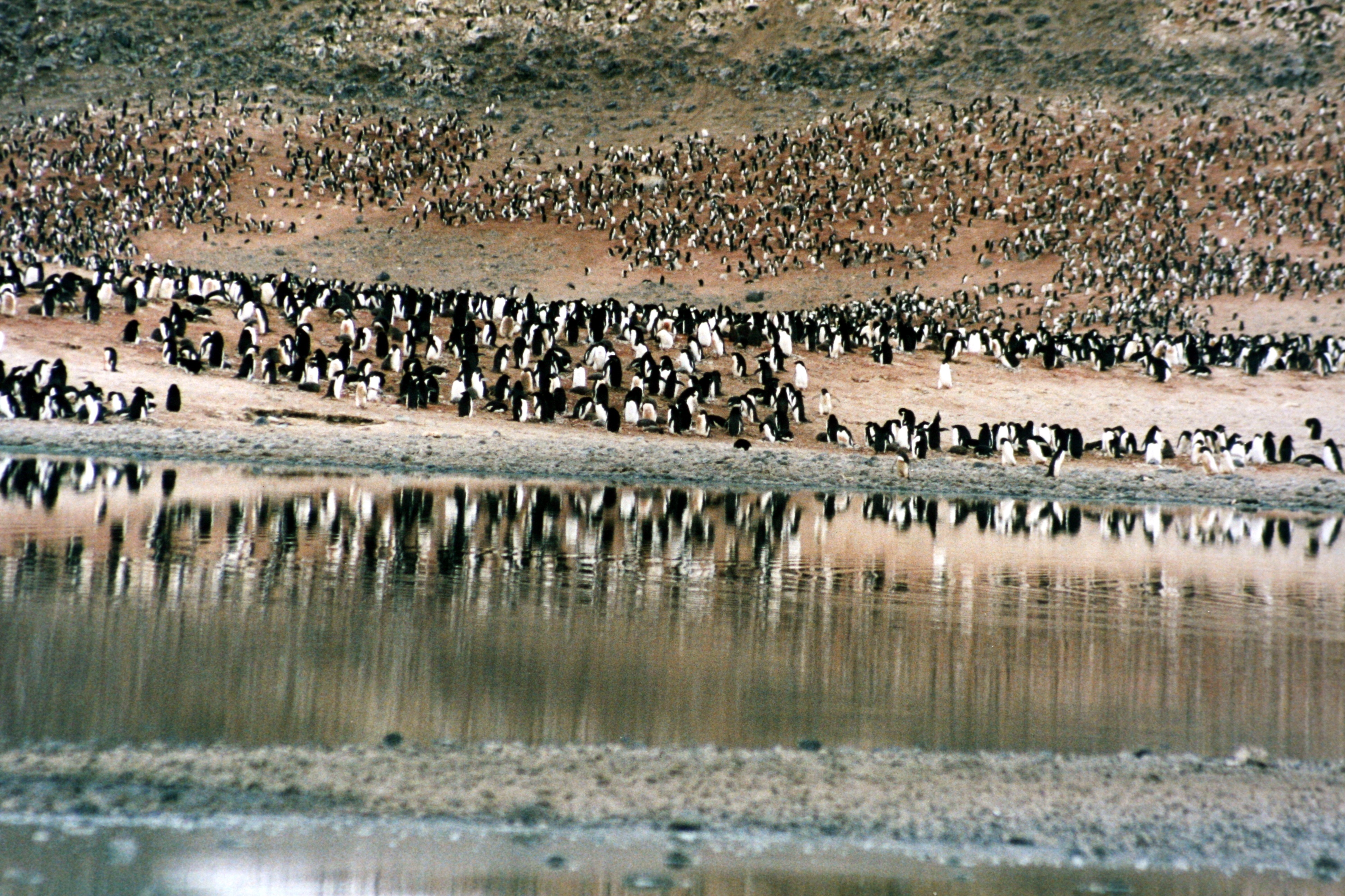 Adelie penguins at Cape Adare in Ross Sea, Antarctica